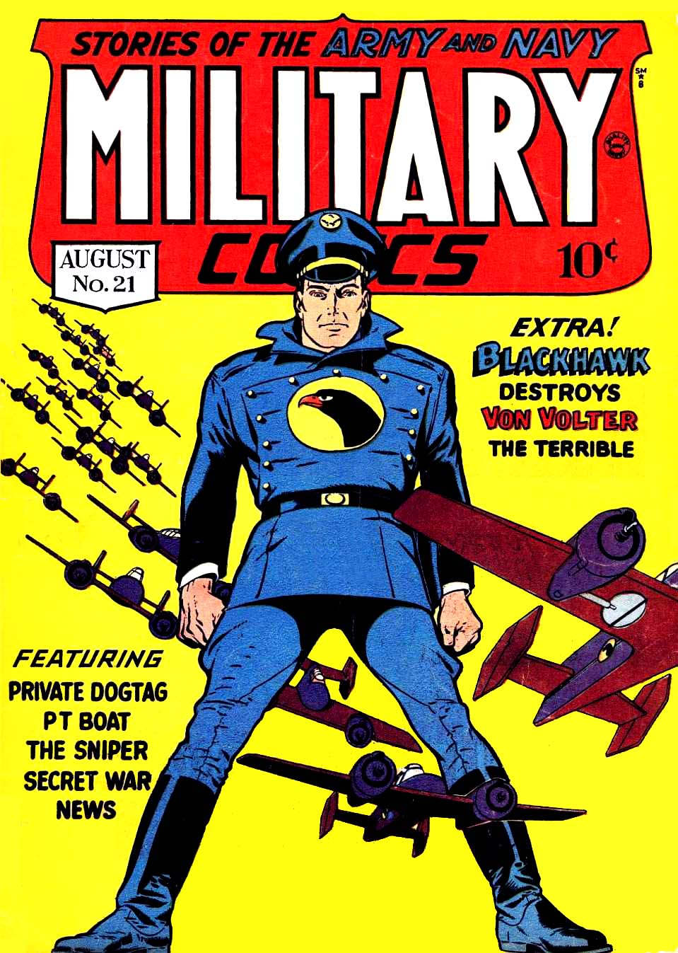 Blackhawk stands tall on the cover of Military Comics number 21 (August 1943). Published by Category:Quality Comics, artwork by Alex Kotzky. This image has fallen into the public domain due to lapsed copyright.